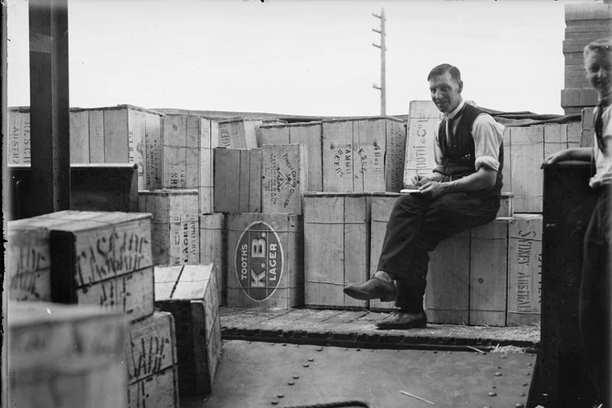 This black and white photo shows a tally clerk sitting with a truck load of beer cases. These cases were the first consignment of liquor following the lifting of Prohibition in the (then) Federal Capital Territory.